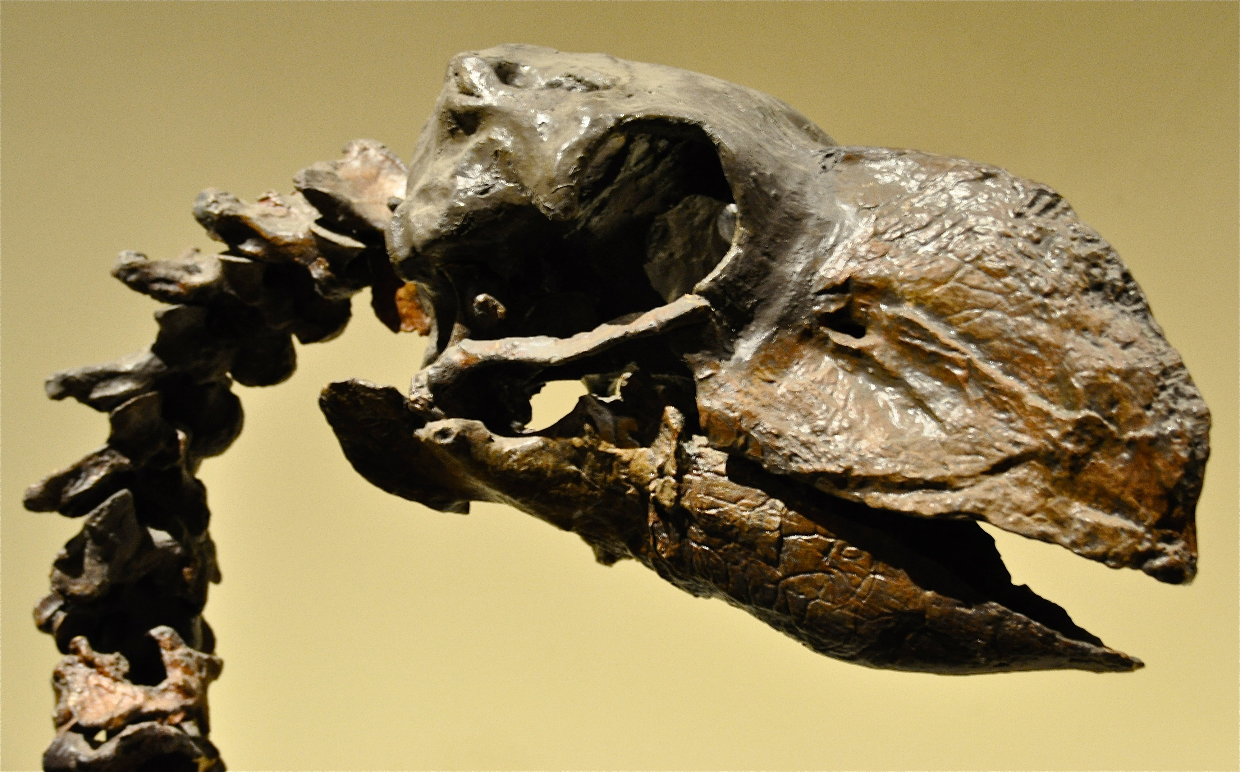 Smithsonian Museum of Natural History